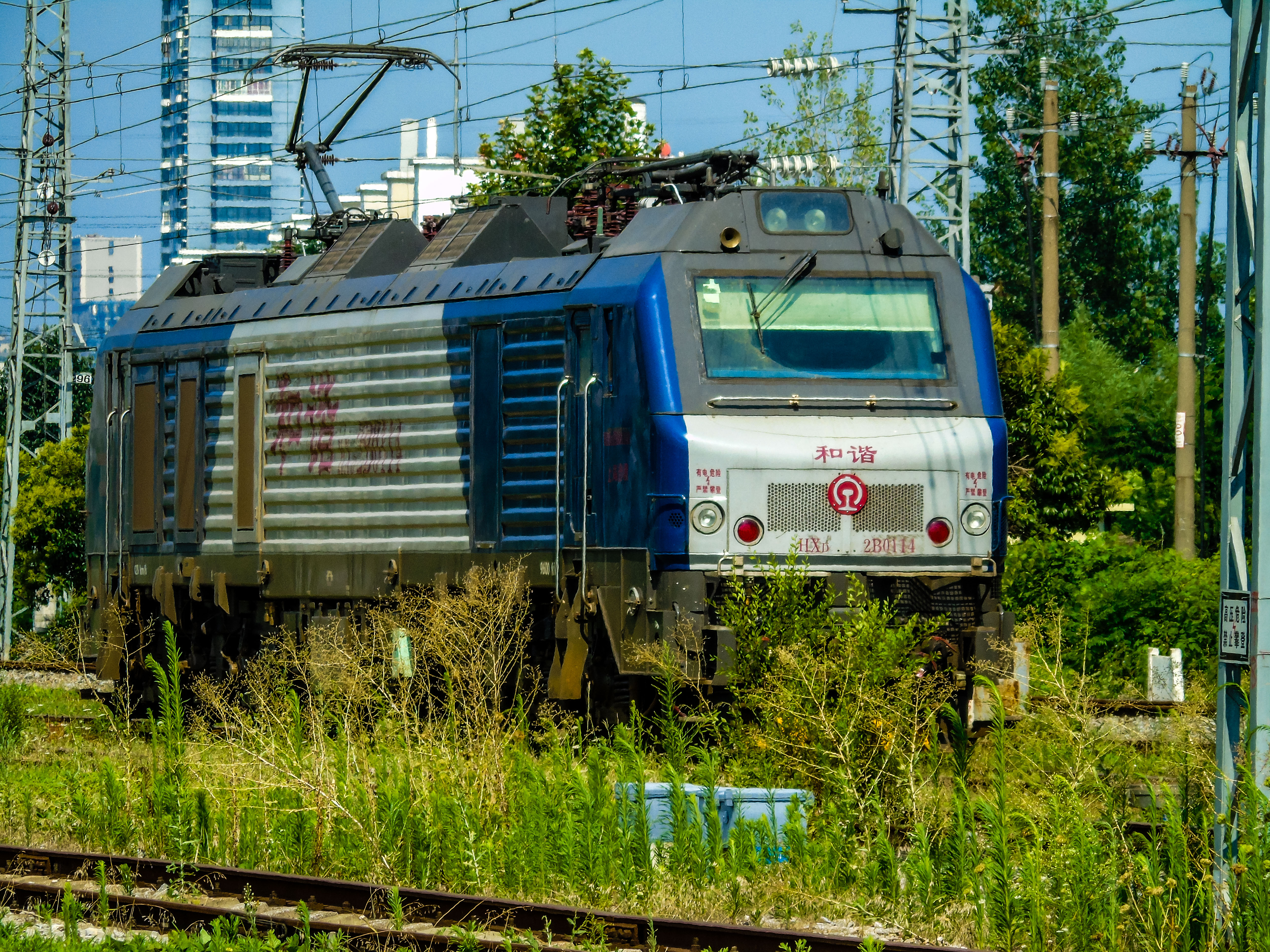 HXD2B-0114 on Huainan Railway Huainanxi Station